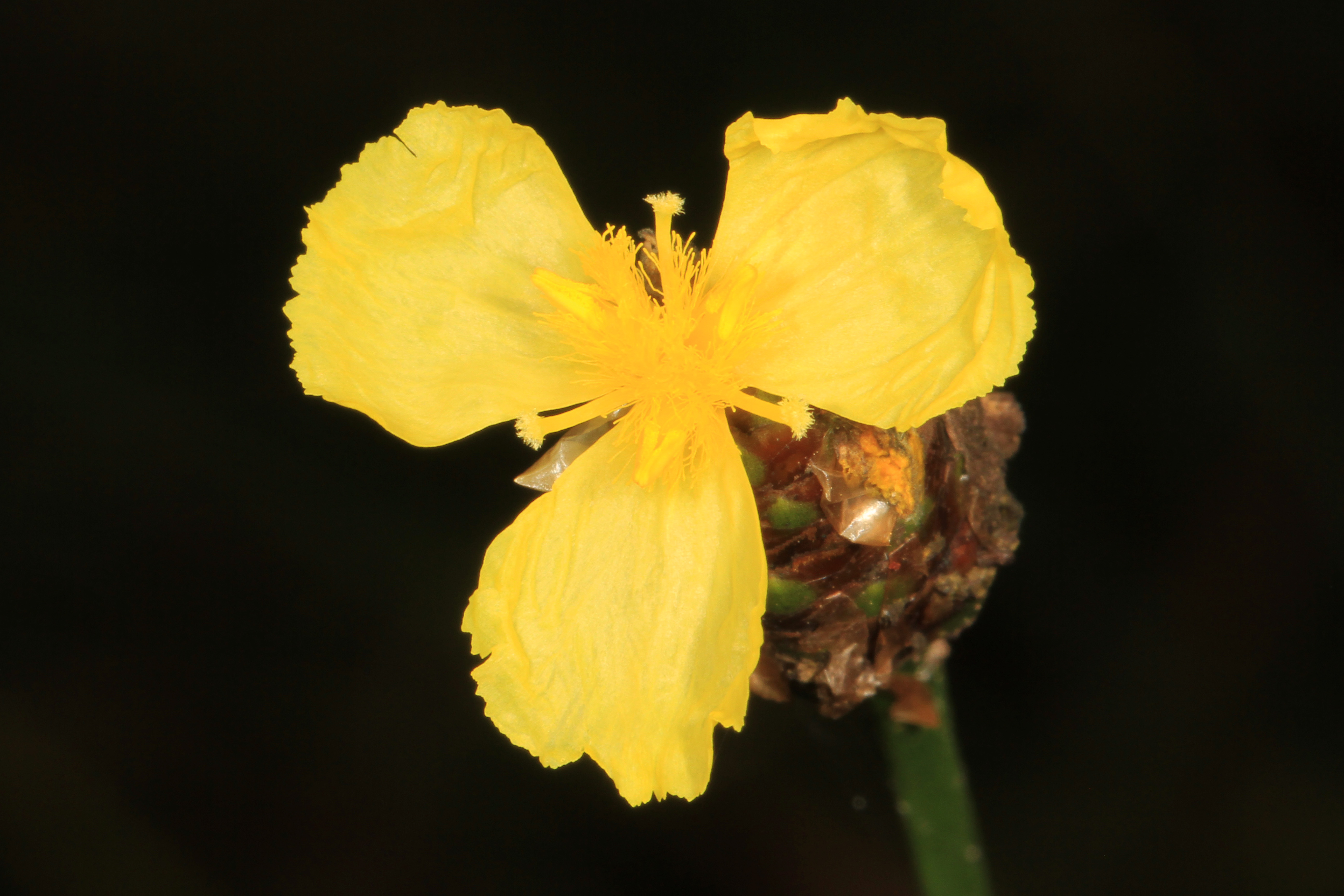 Fringed Yellow-eyed Grass - Xyris fimbriata, Carolina Sandhills National Wildlife Refuge, McBee, South Carolina